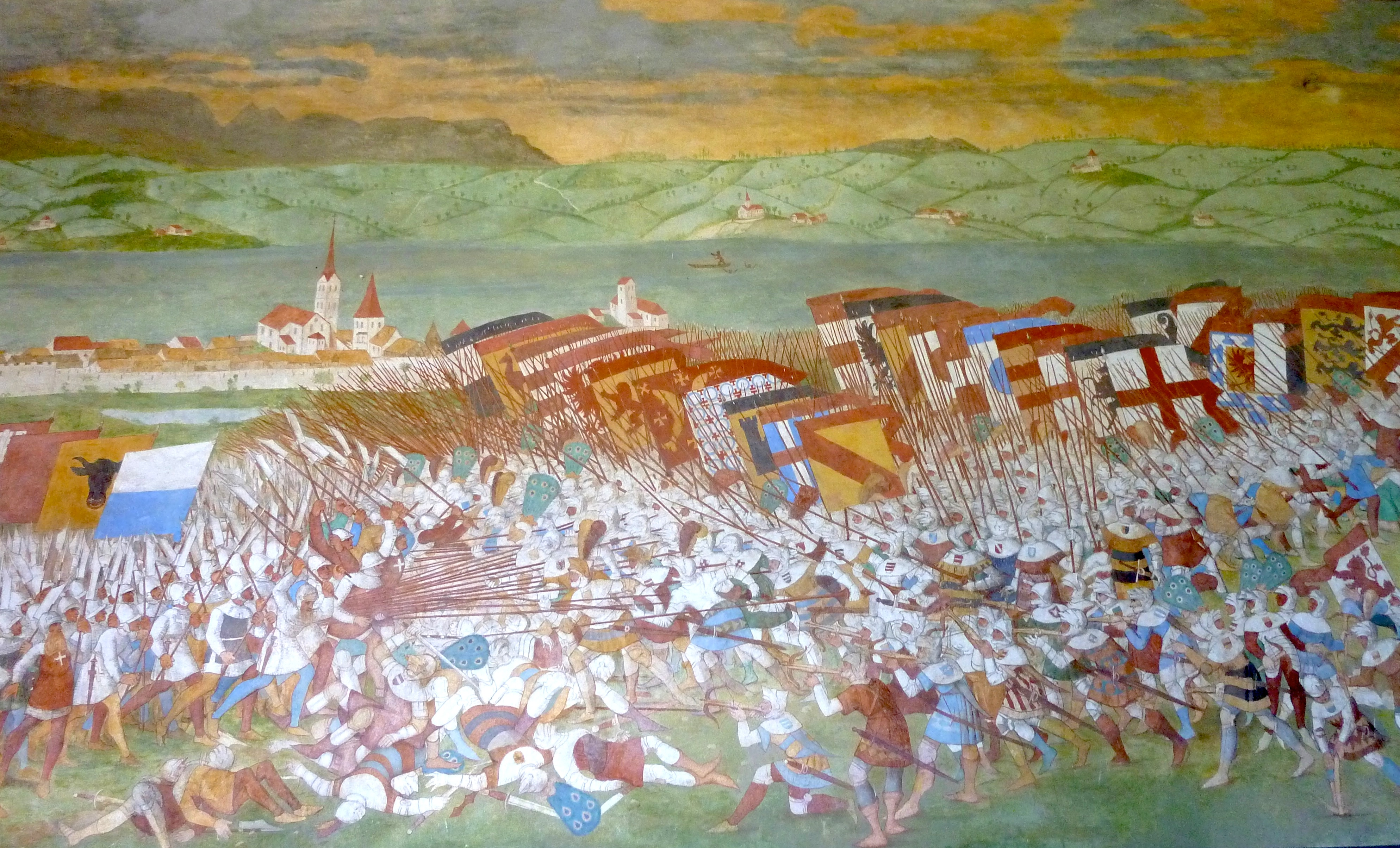 Swiss pike square in the battle near Sempach on the 9th of July, 1386. Painting by Hans Ulrich Wegmann (1638/41) from the Battle Chapel at Sempach.